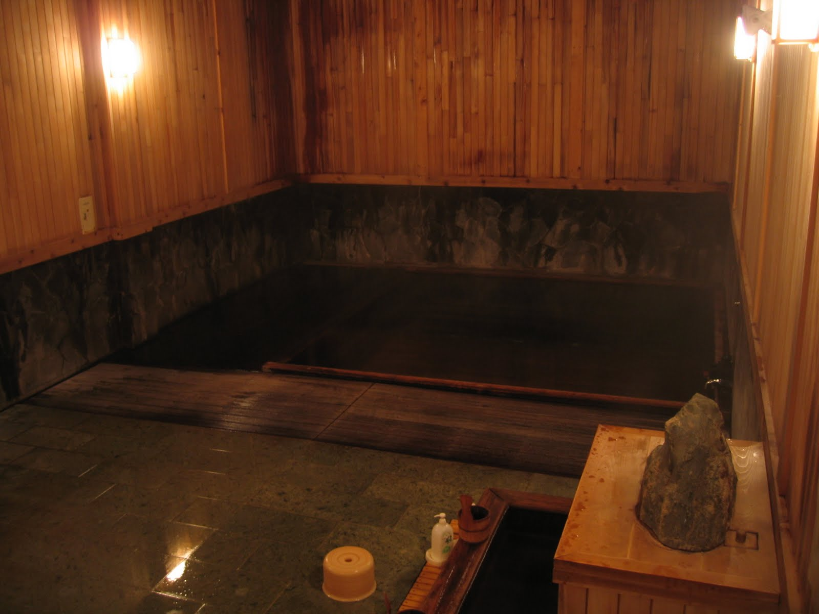 The inner bath of Tsuta Onsen. Canon IXY Digital 500